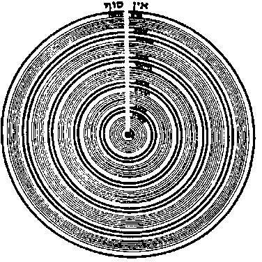 Kabbalah - Ein Sof and angelic hierarchies. Image in the public domain because its copyright has expired in the United States and those countries with a copyright term of no more than the life of the author plus 100 years.